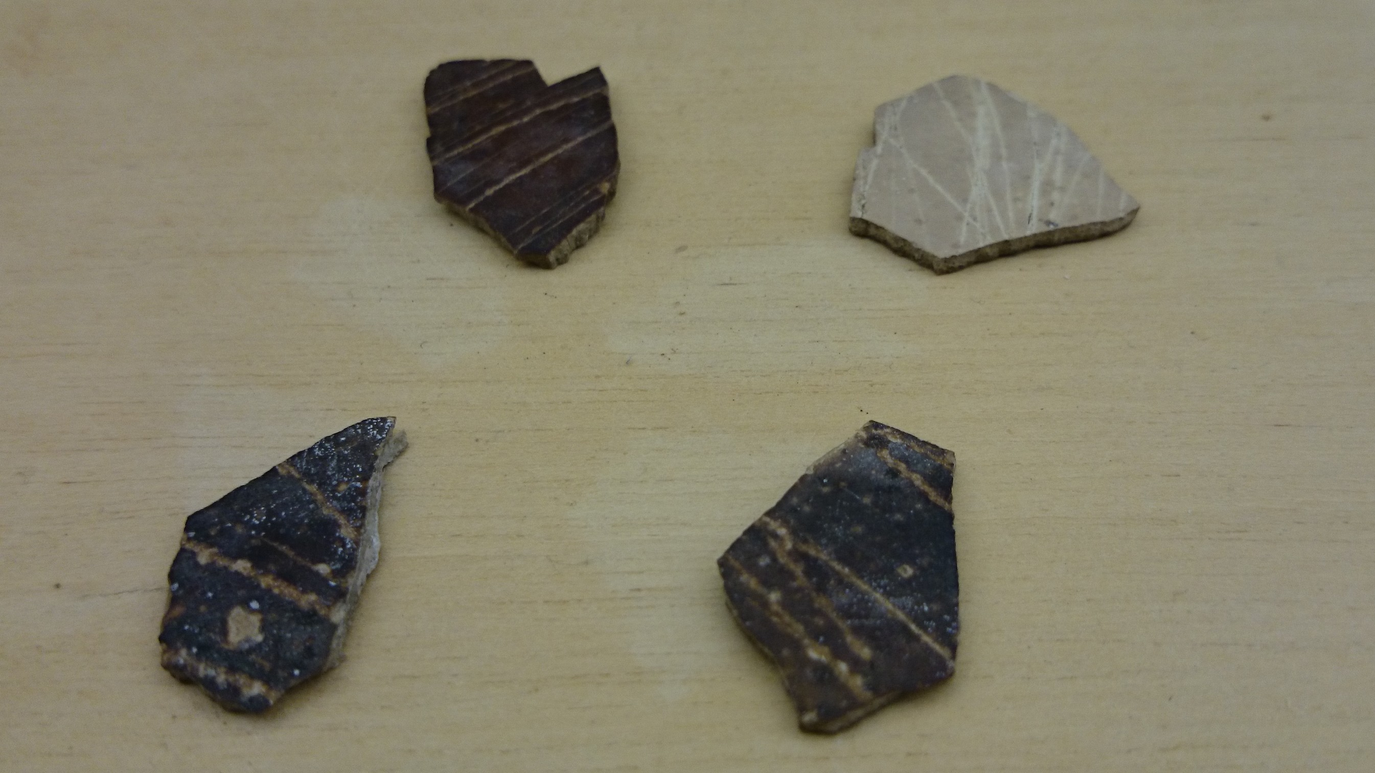 Diepkloof, Western Cape Between 55 and 65 000 years old Engraved ostrich eggshell Dated by optically stimulated luminescence (OSL) and radiocarbon.